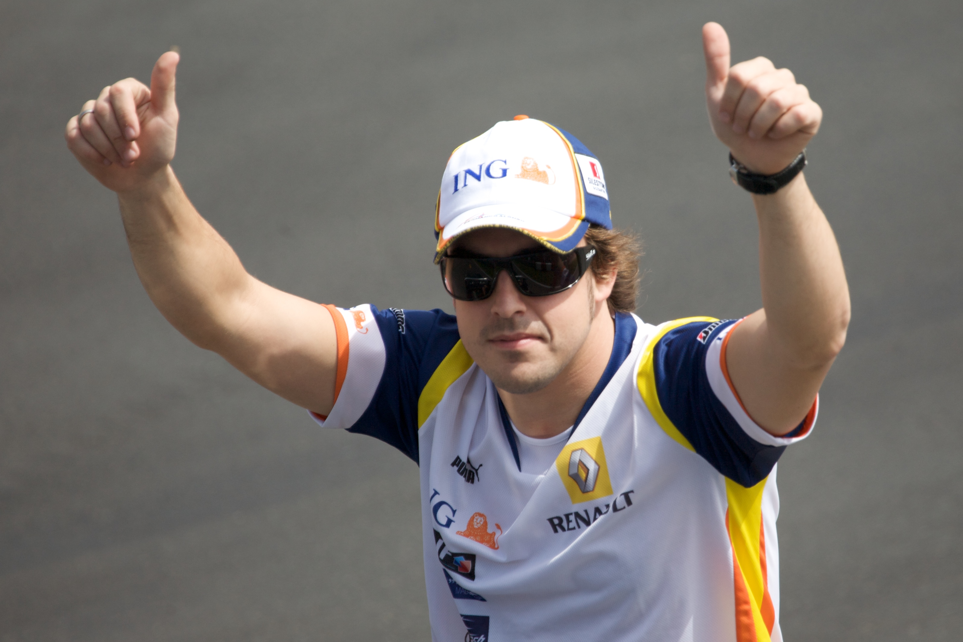 Fernando Alonso at the 2008 Canadian Grand Prix.